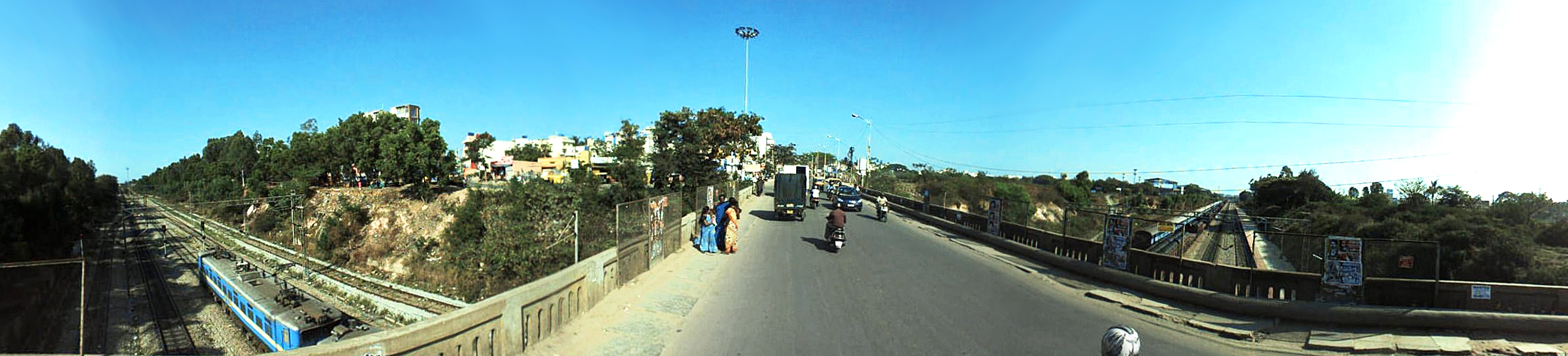 Panoramic view of Ramamurthy Nagar bridge